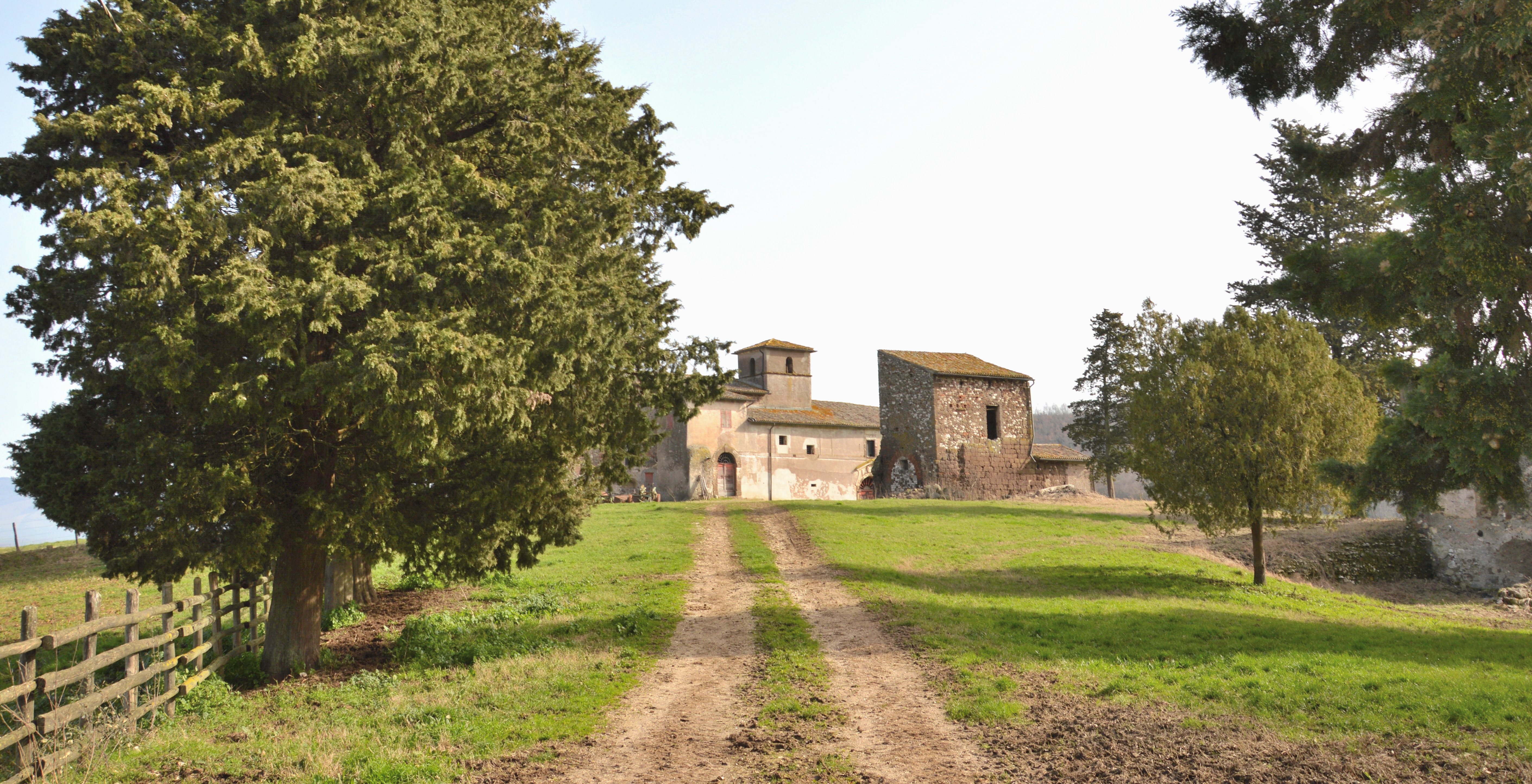 Gavignano (Rm)